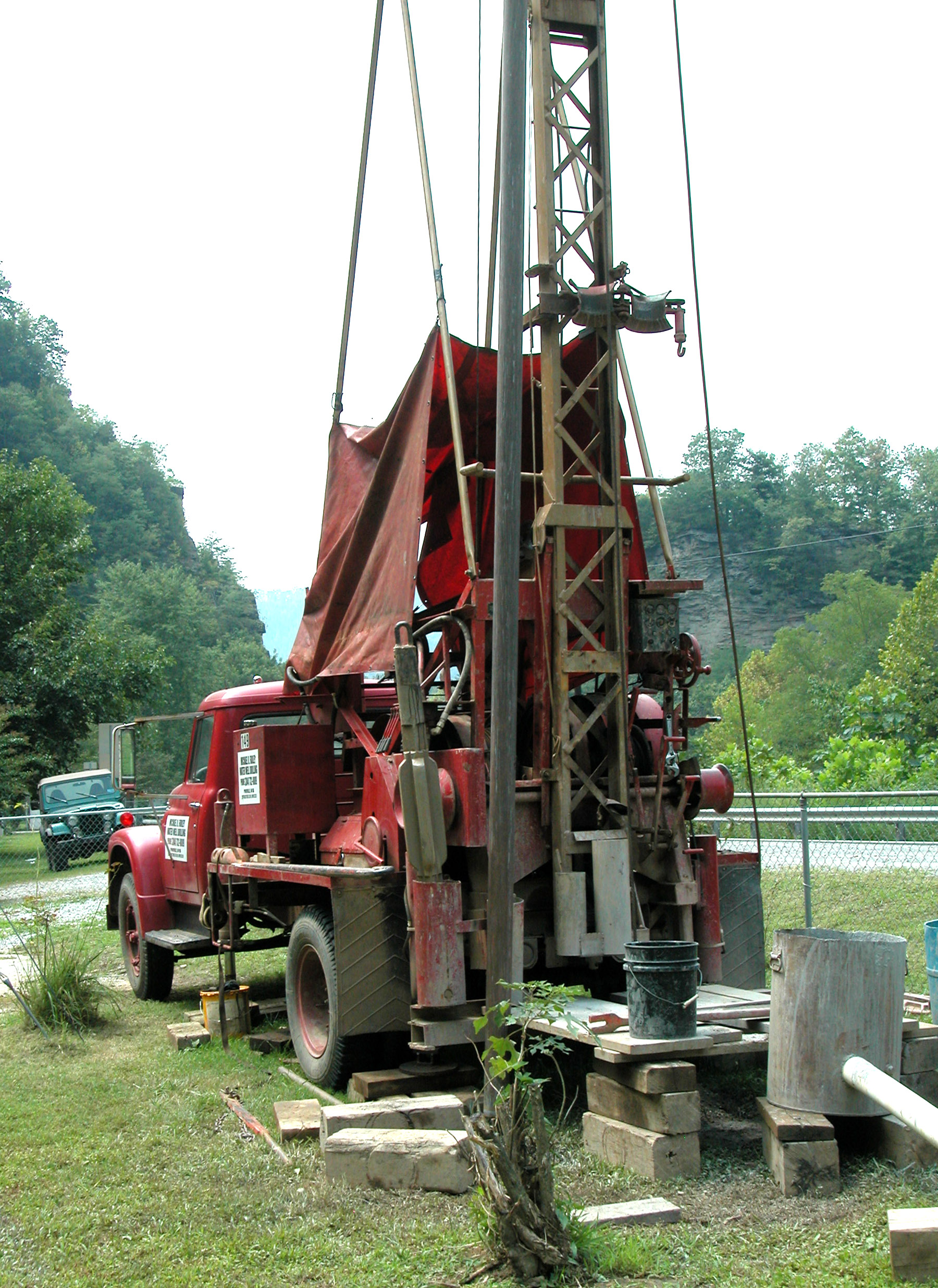 Water well spudder drilling rig in Kimball, West Virginia Image copyleft: Image taken by me, released under GFDL, Pollinator 06:23, 23 February 2006 (UTC)